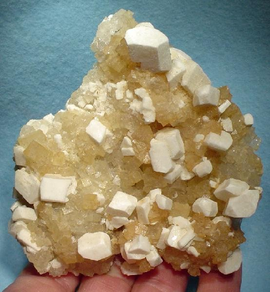 Leonite, Halite Locality: Wintershall Potash Works, Heringen, Werra Valley, North Hesse, Hesse, Germany (Locality at ) Size: 9.7 x 9.0 x 4.2 cm. Sharp, freestanding, snow-white pseudomorphs of leonite after picromerite crystals to 1.6 cm. They are perched beautifully and 3-dimensionally on matrix of crystallized halite. Ex. Marty Zinn Collection #2078.